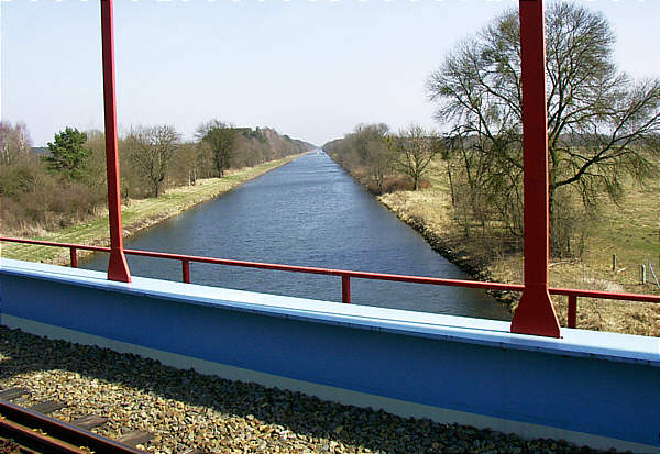 Oder-Havel-Kanal - view from railway bridge Ruhlsdorf to east